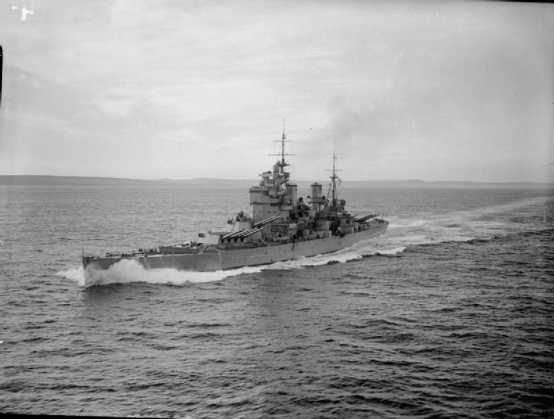 The Royal Navy during the Second World War HMS KING GEORGE V underway at speed in Scapa Flow.